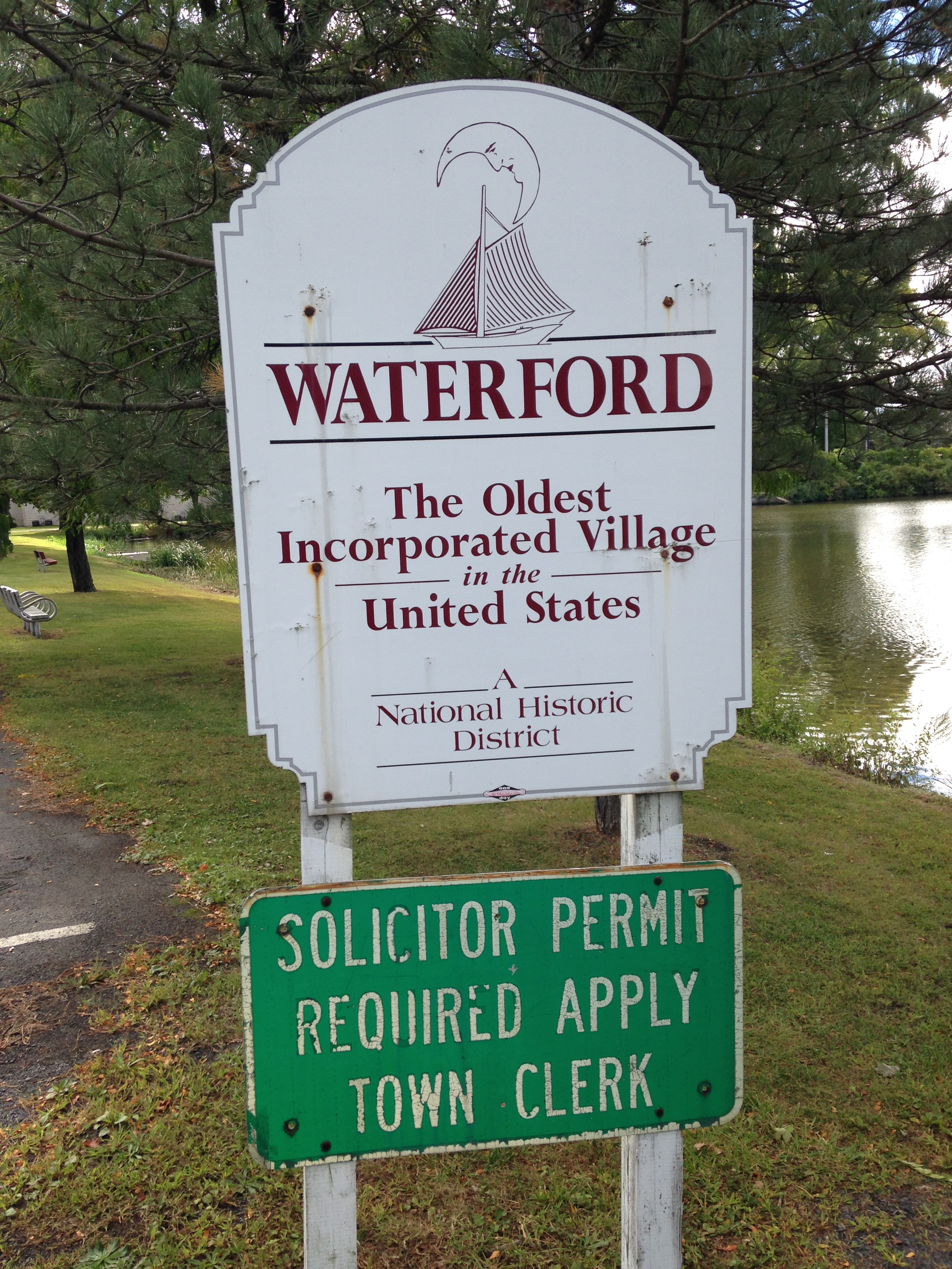 Sign welcoming motorists to the Village of Waterford. Taken near Erie Canal Lock 3.